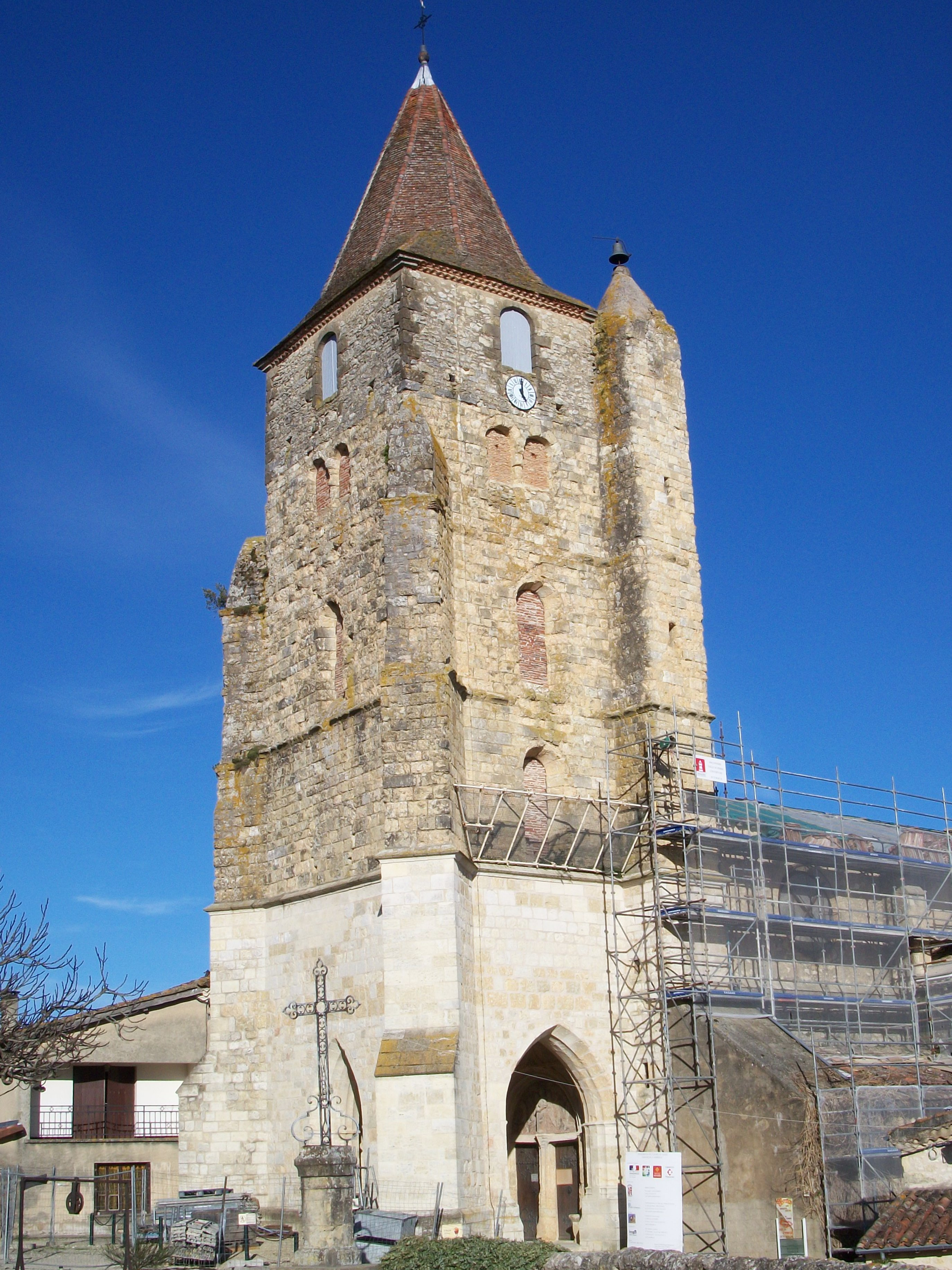 Lavardens Church, Gers, France